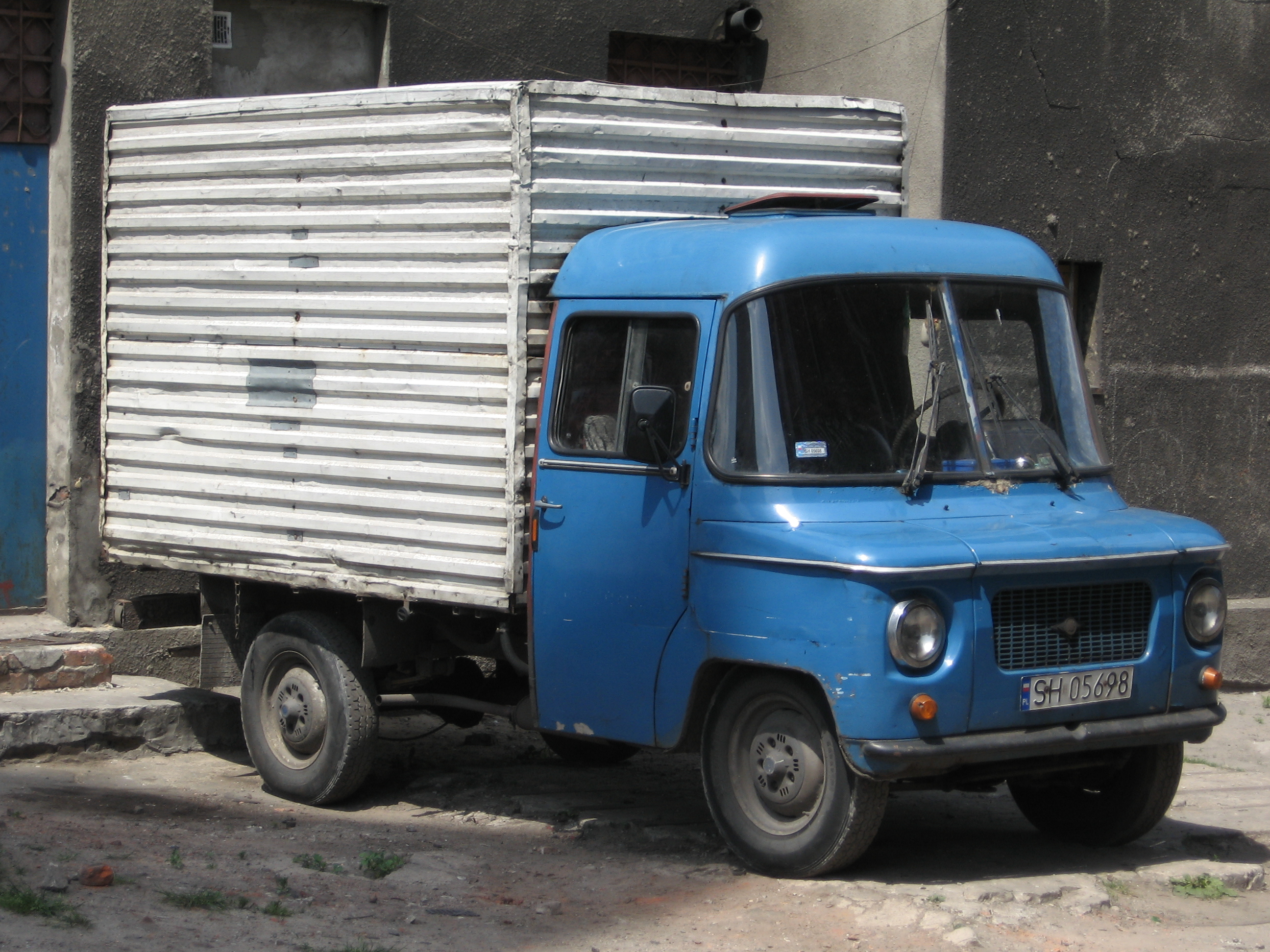 ZSD Nysa 522. This is most likely a custom conversion and not the agricultural version as the agricultural version had a cabin with a rounded rear.